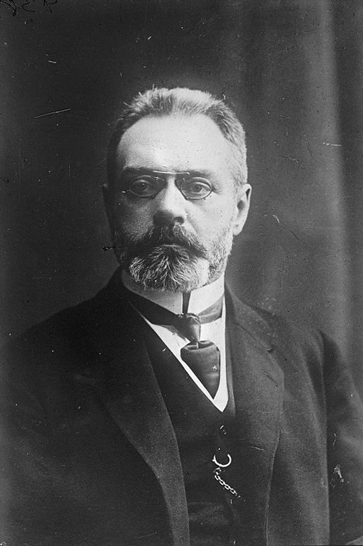 Alexander Goutschkoff of Russia